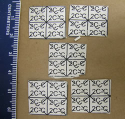 Photo of the psychedelic drug 2C-C on blotting paper, seized by law enforcement in 2005.